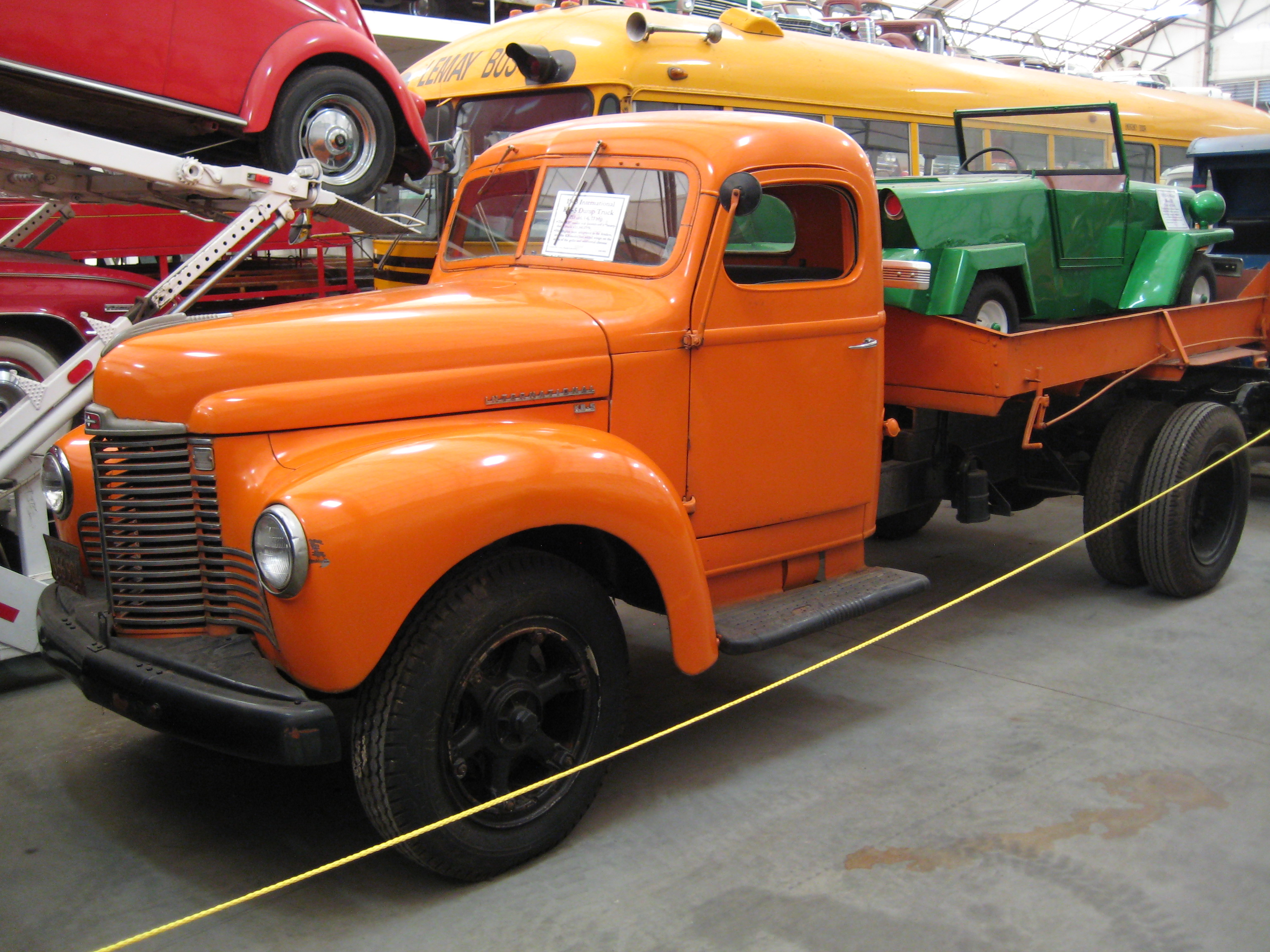 1948 International Harvester KB-5, part of the LeMay Family Collection on display at their annual open house.